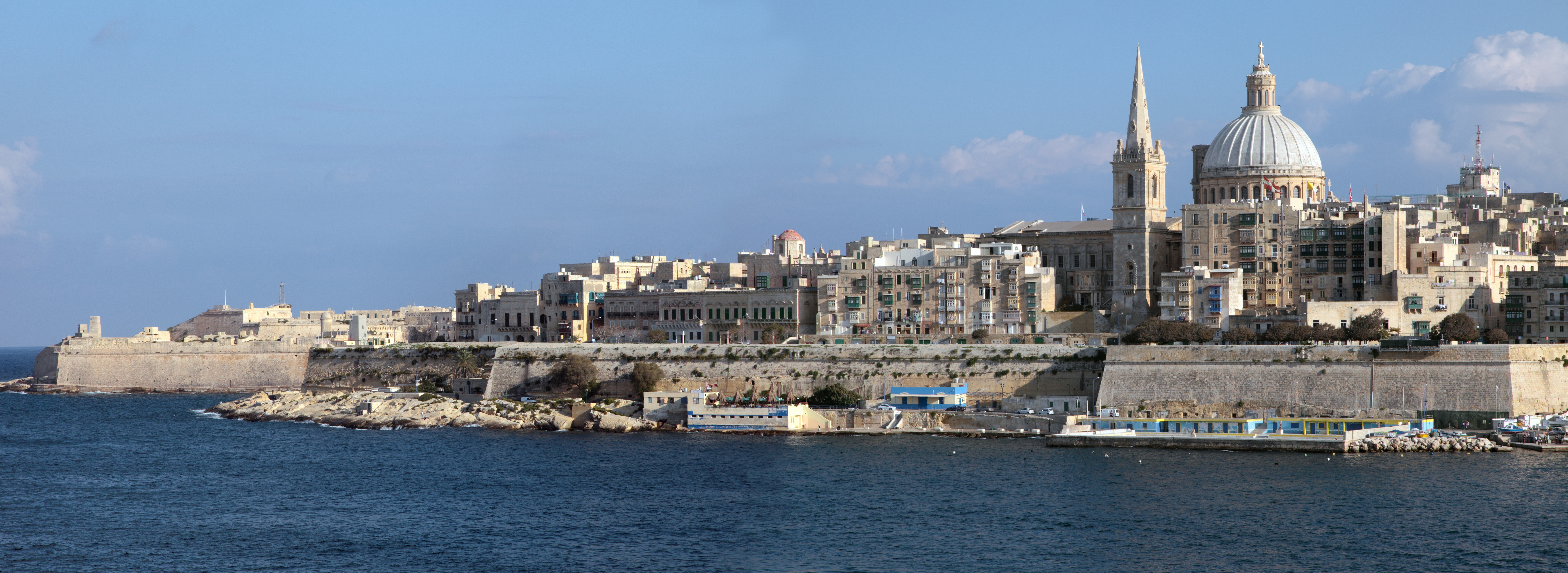 Malta, Valletta seen from Fort Manoel (on Manoel Island)